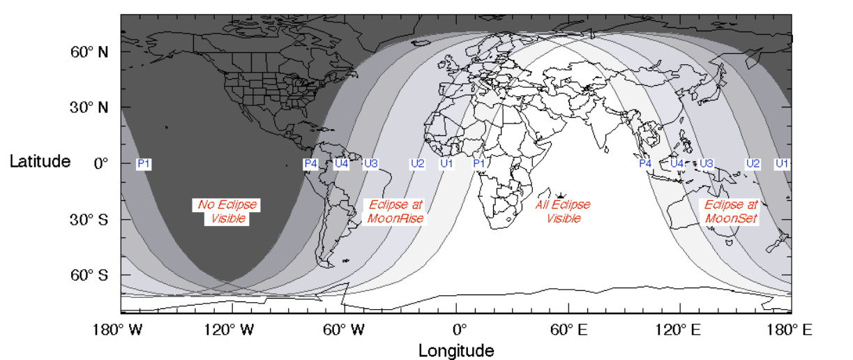 Eclipse visibility in Africa, Europe, Asia and Australia, July 27, 2018 (→ Commons eclipse photos and media).